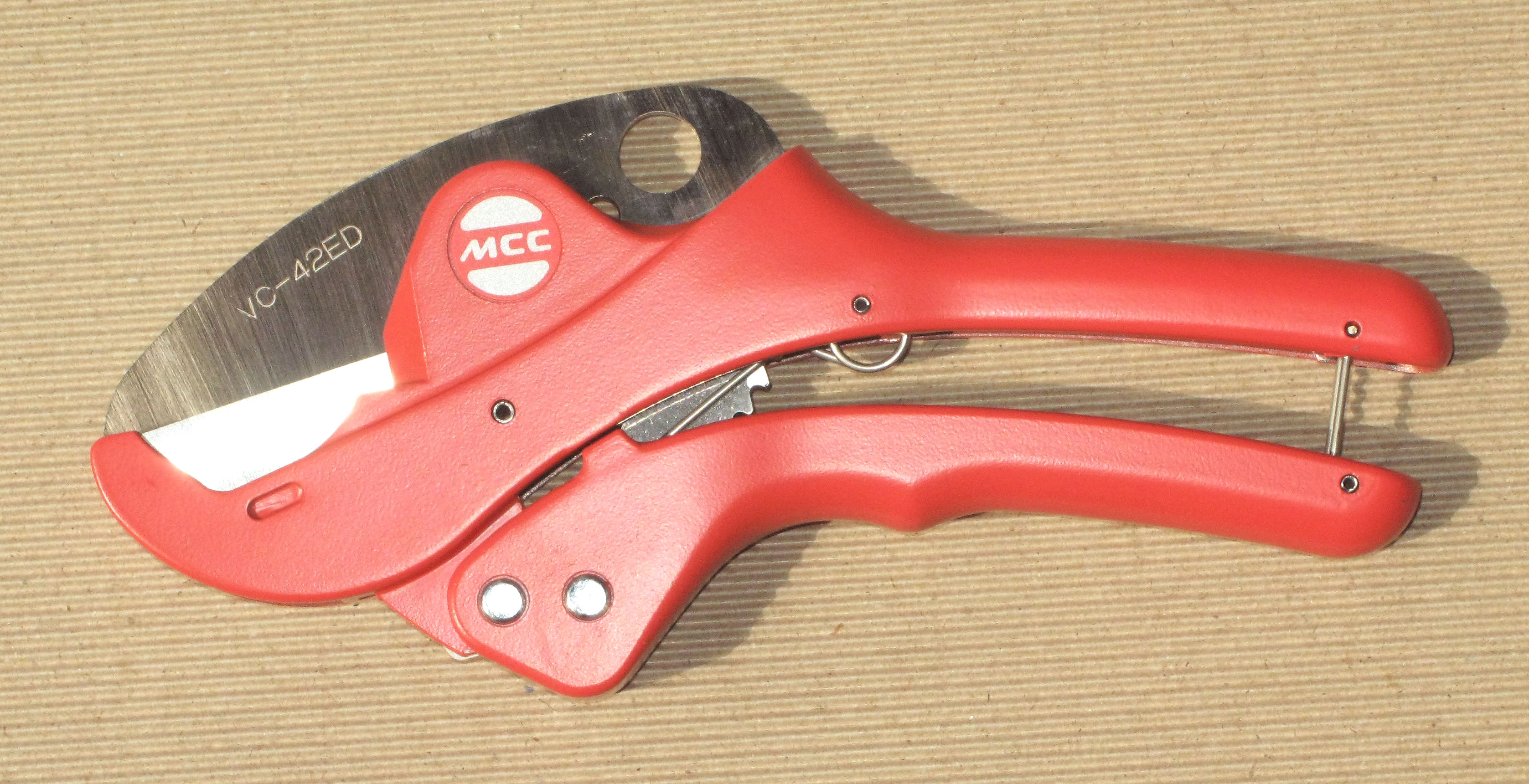 MCC Brand made in japan.